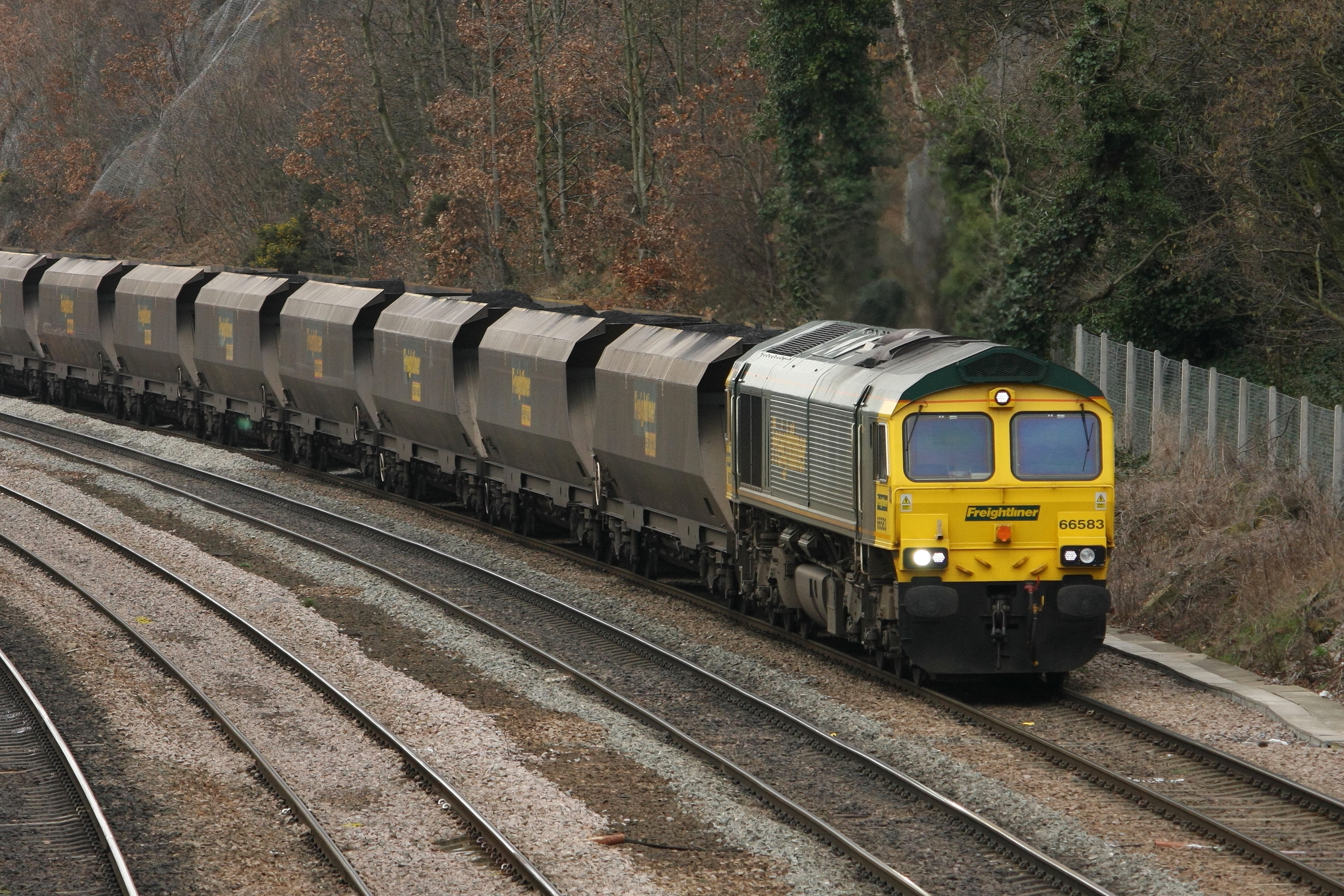 66583 passes Chesterfield working 6M49 Barrow Hill - Rugeley PS